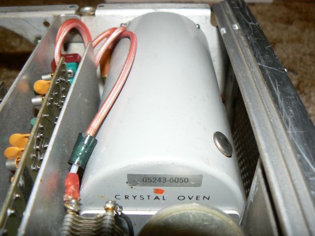 This is a crystal oven (OCXO) mounted inside an HP digital counter.